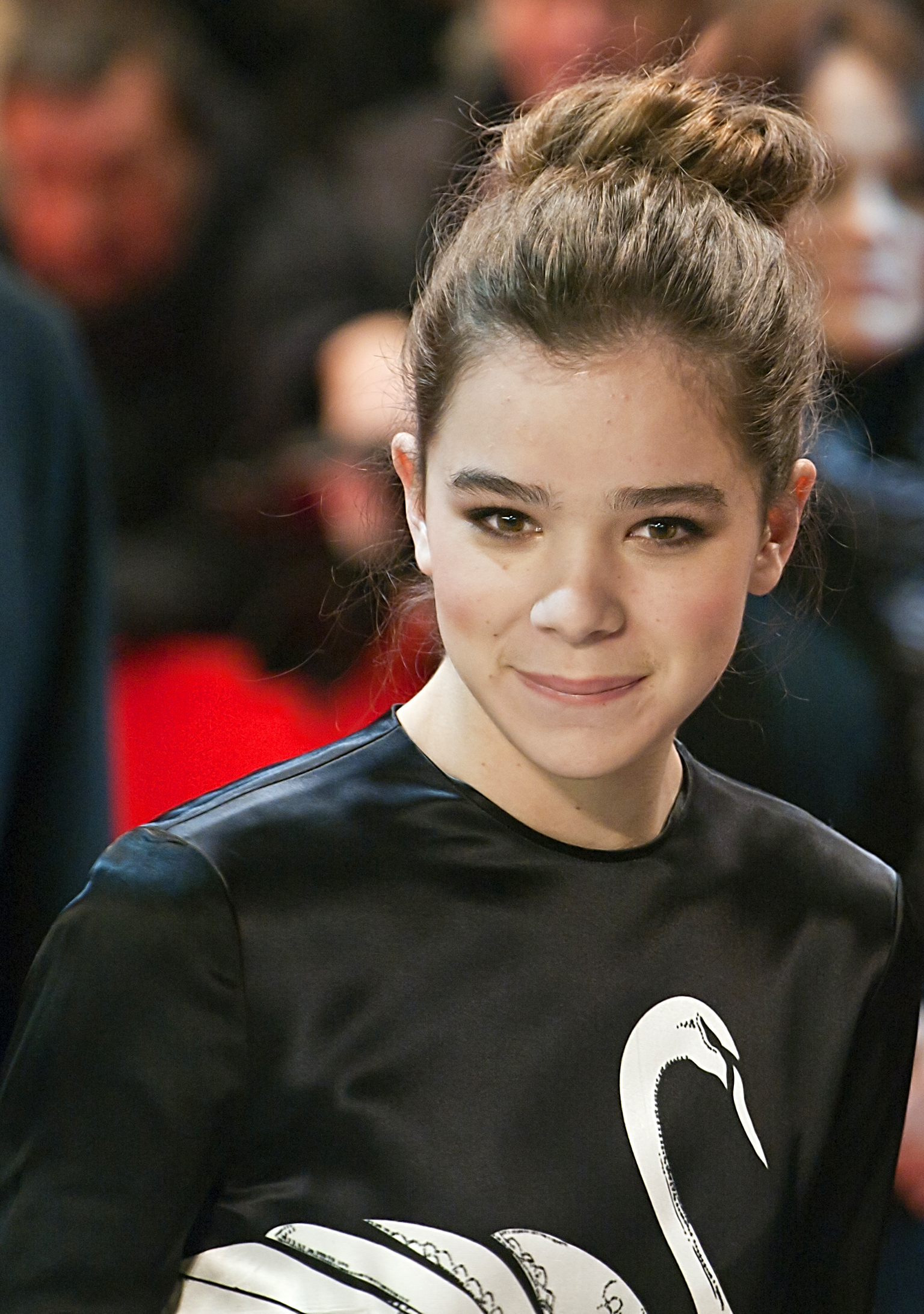 Hailee Steinfeld at the Premiere of True Grit at the Berlin Film Festival 2011